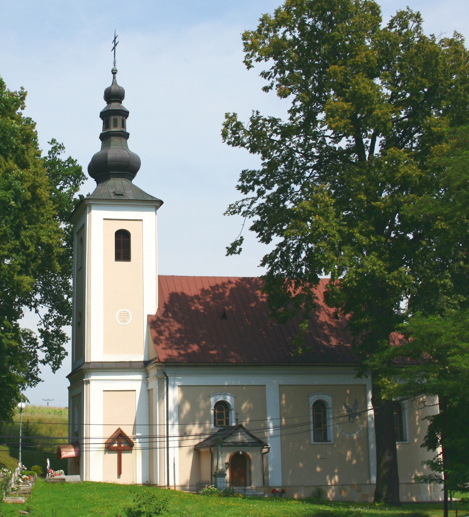 cerkiew in Tarnov, Slovakia